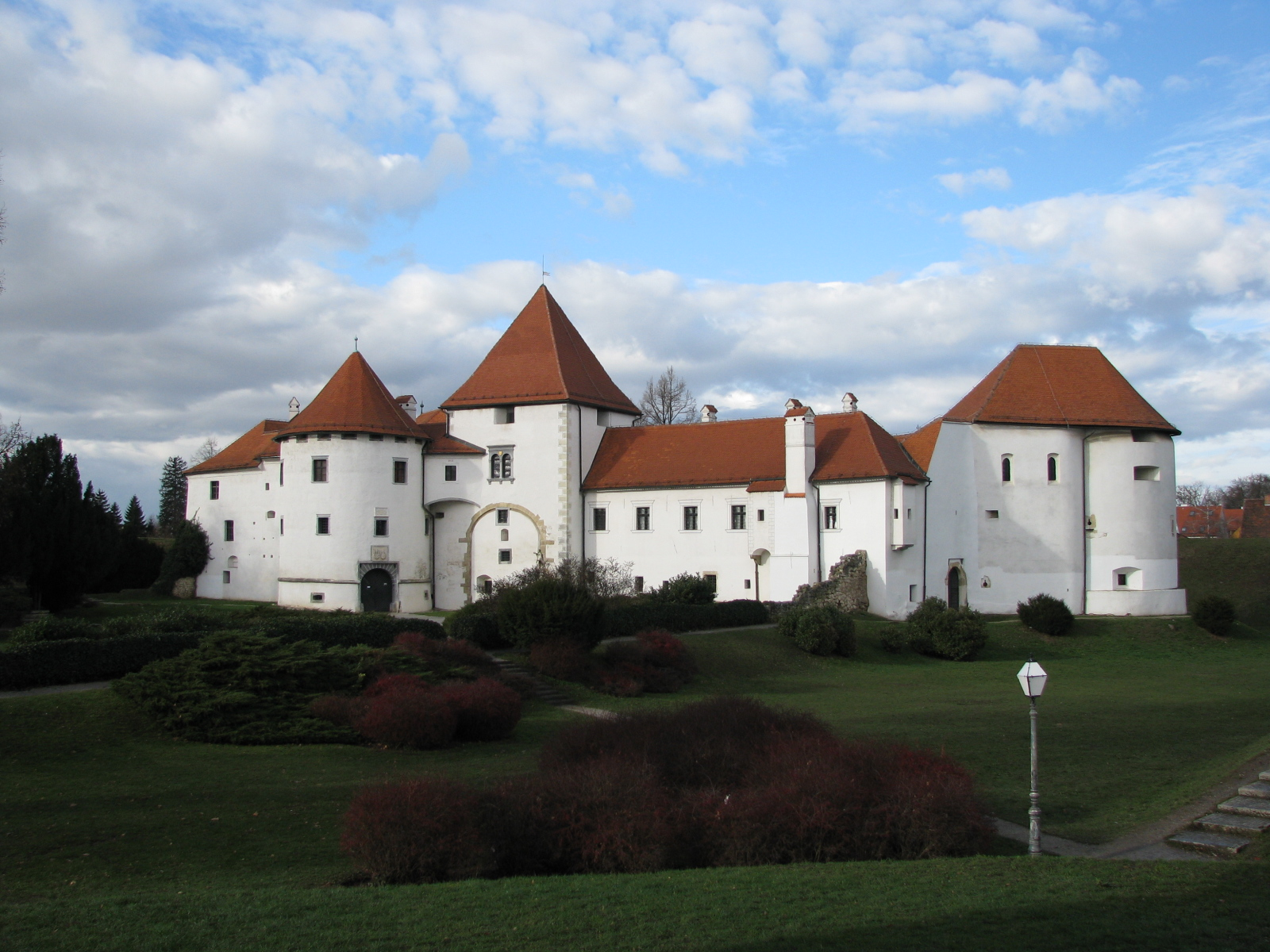 The Old Castle (Stari Grad) in Varaždin, Croatia. Construction started in 14th century. The rounded towers were added in 15th century. Today it houses one of the departments of the Municipal Museum.(link).